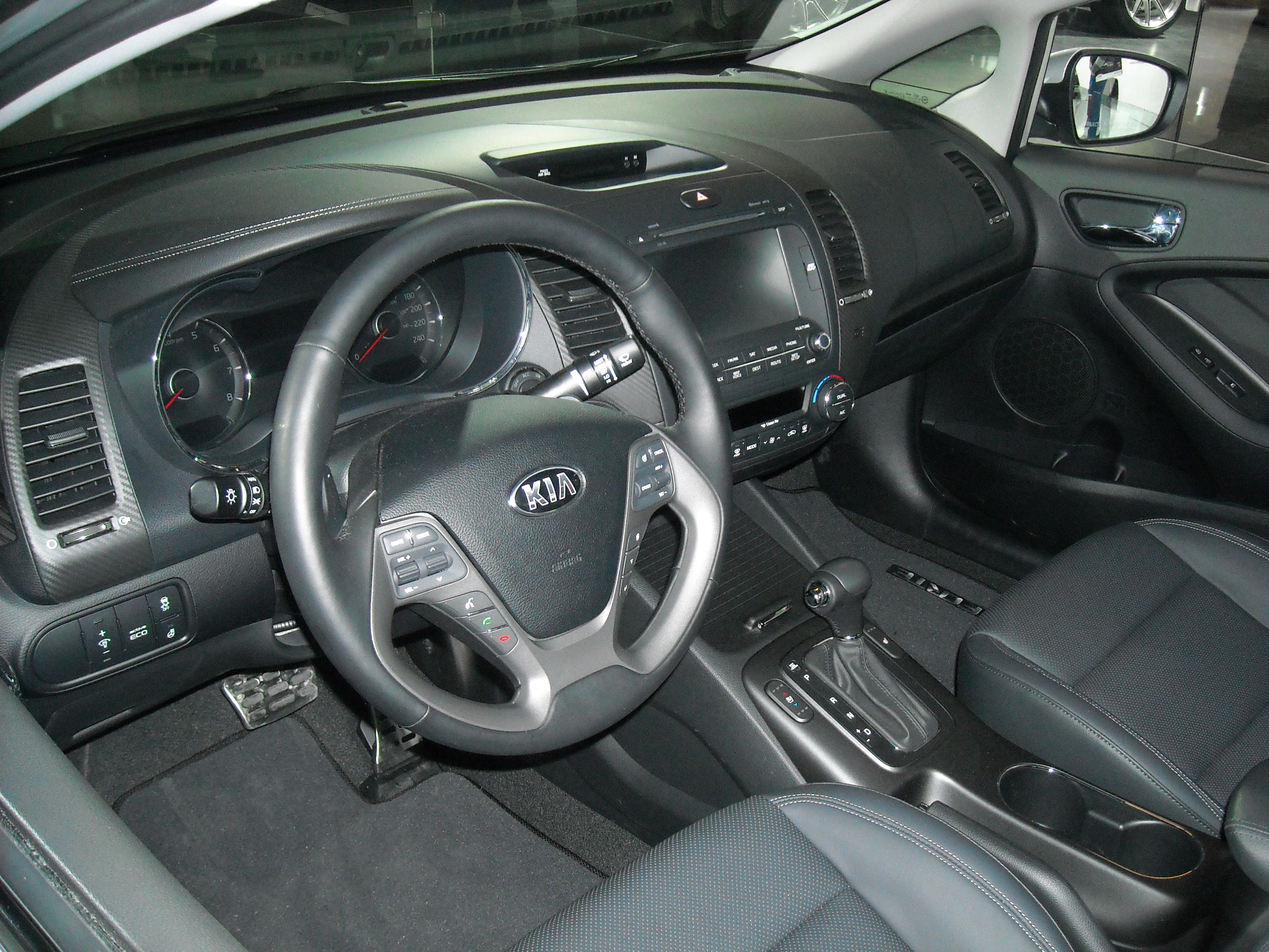 Interior of the 2014 Kia Forte shown at the Montreal International Auto Show